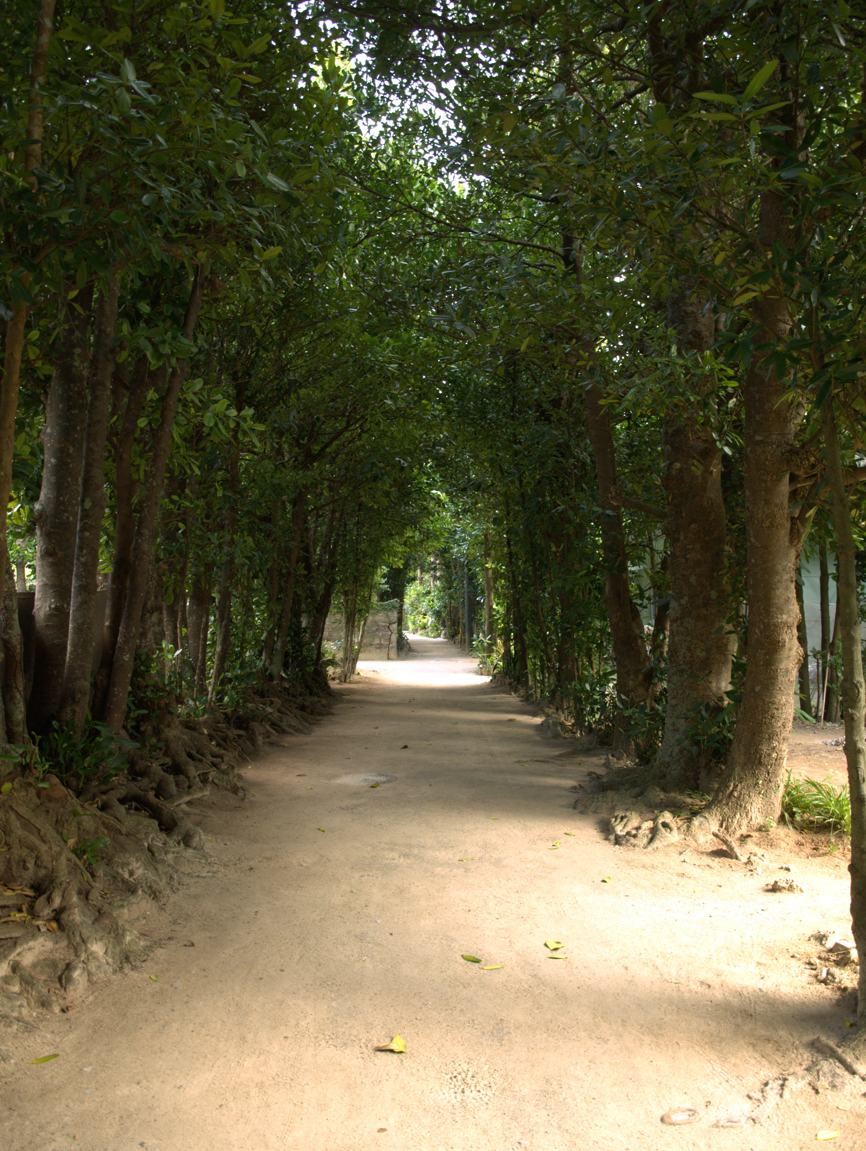 Path of fukugi (Garcinia subelliptica) in morning near Cape Bise, Motobu Peninsula, Motobu, Okinawa Prefecture, Japan.